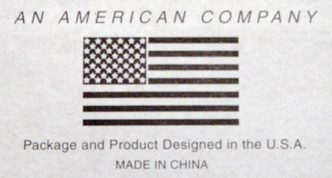 AMERICAN COMPANY! DESIGNED IN USA! made in china (from the back of My First Checkbook)